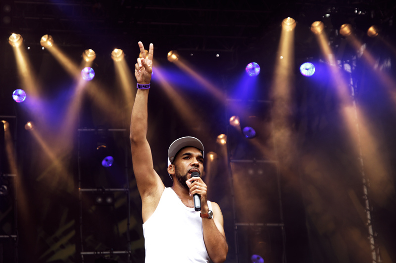 Nosliw, live at Ruhr Reggae Summer 2010